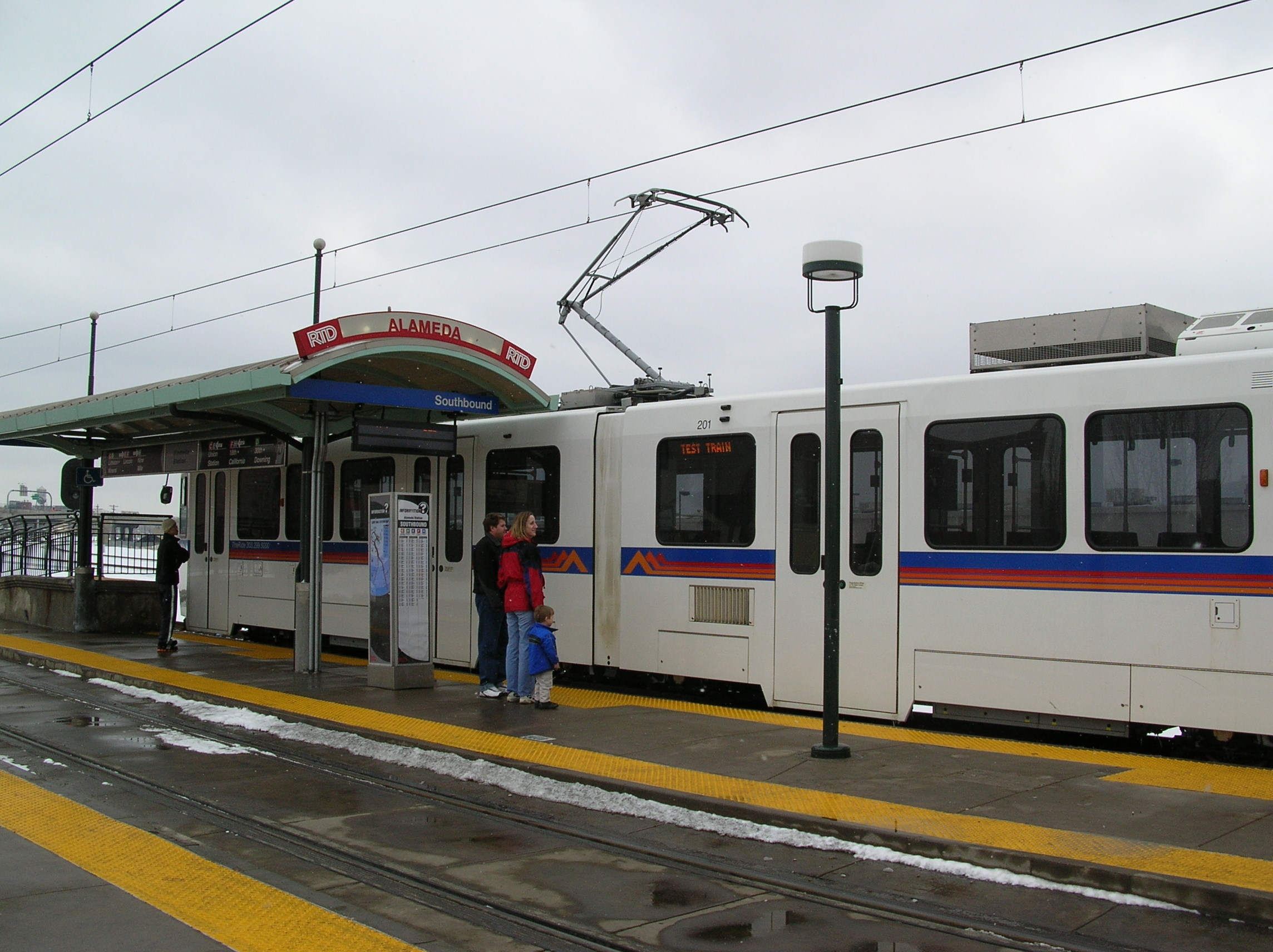 Test train arriving at the Alameda RTD Station in Denver, CO.